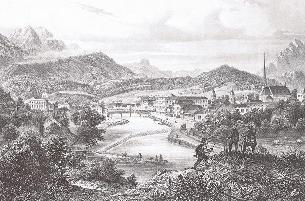 The Ischl 1855